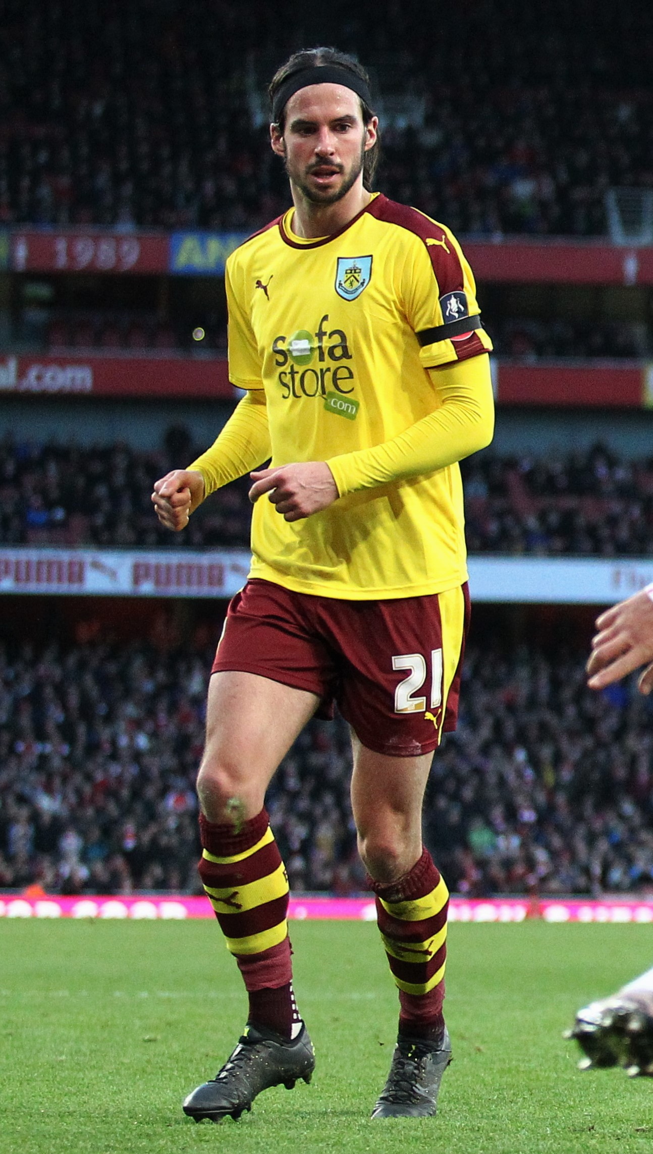 Alex Oxlade-Chamberlain of Arsenal on the ball during the game against Burnley.